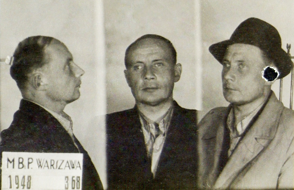 Henryk Borowski (1913-1951) Captain of Polish Army , officer of Home Army (Armia Krajowa)